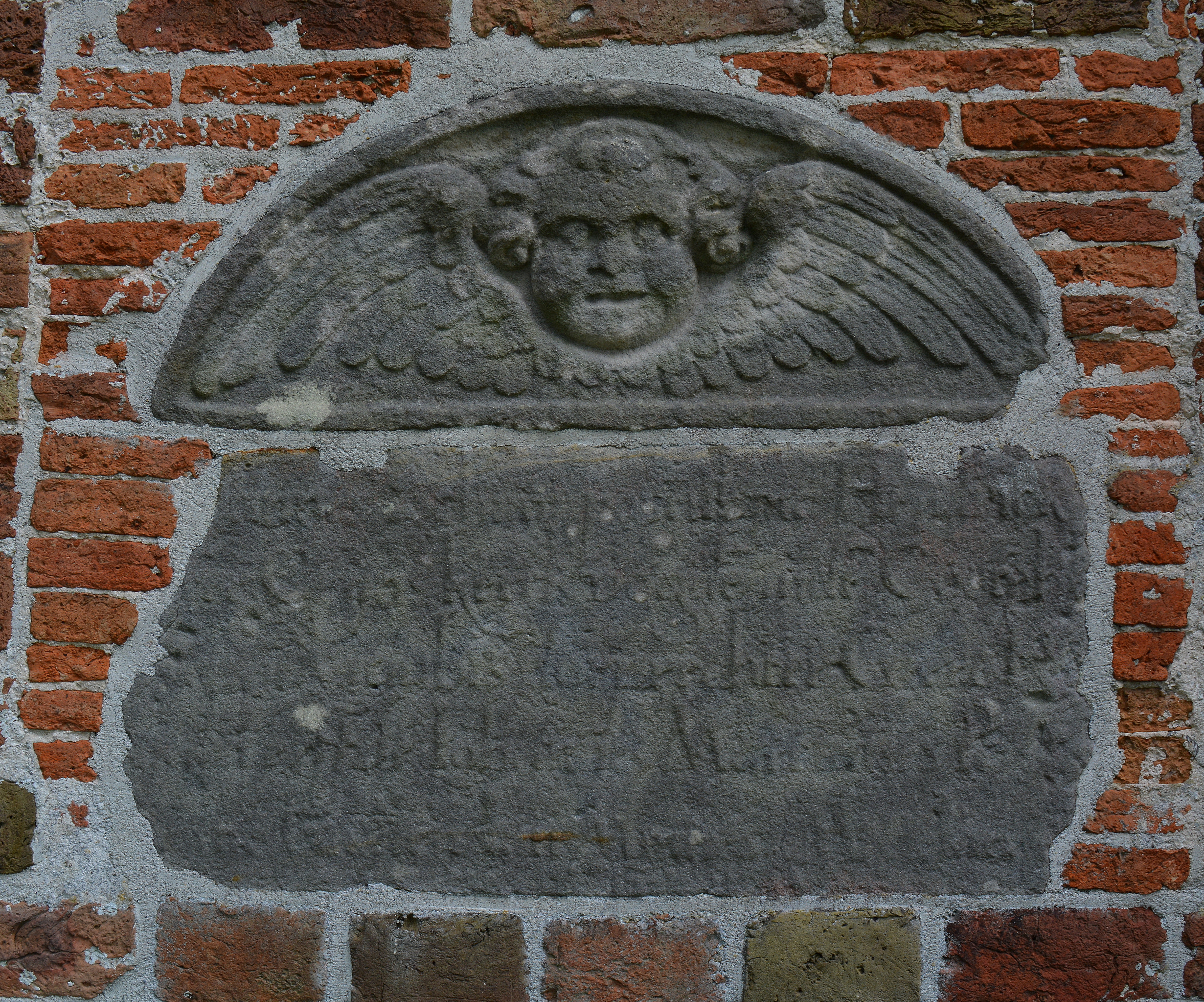 Kerk van Kortehemmen, gevelsteen 1620